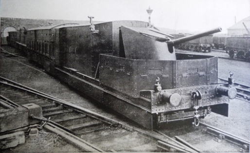 London and North Western Railway armoured train which patrolled the east coast of the United Kingdom throughout World War I